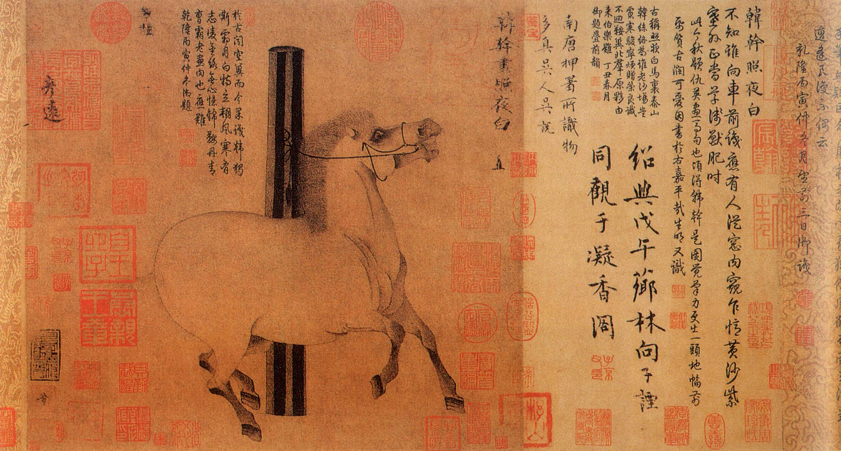 Zhaoyebaitu by Han Gan